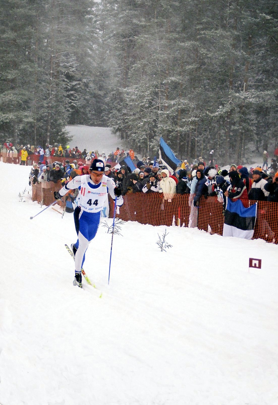 FIS World Cup Cross Country - January 2007 in Otepää, Estonia Men Classical 15 km Jaak Mae